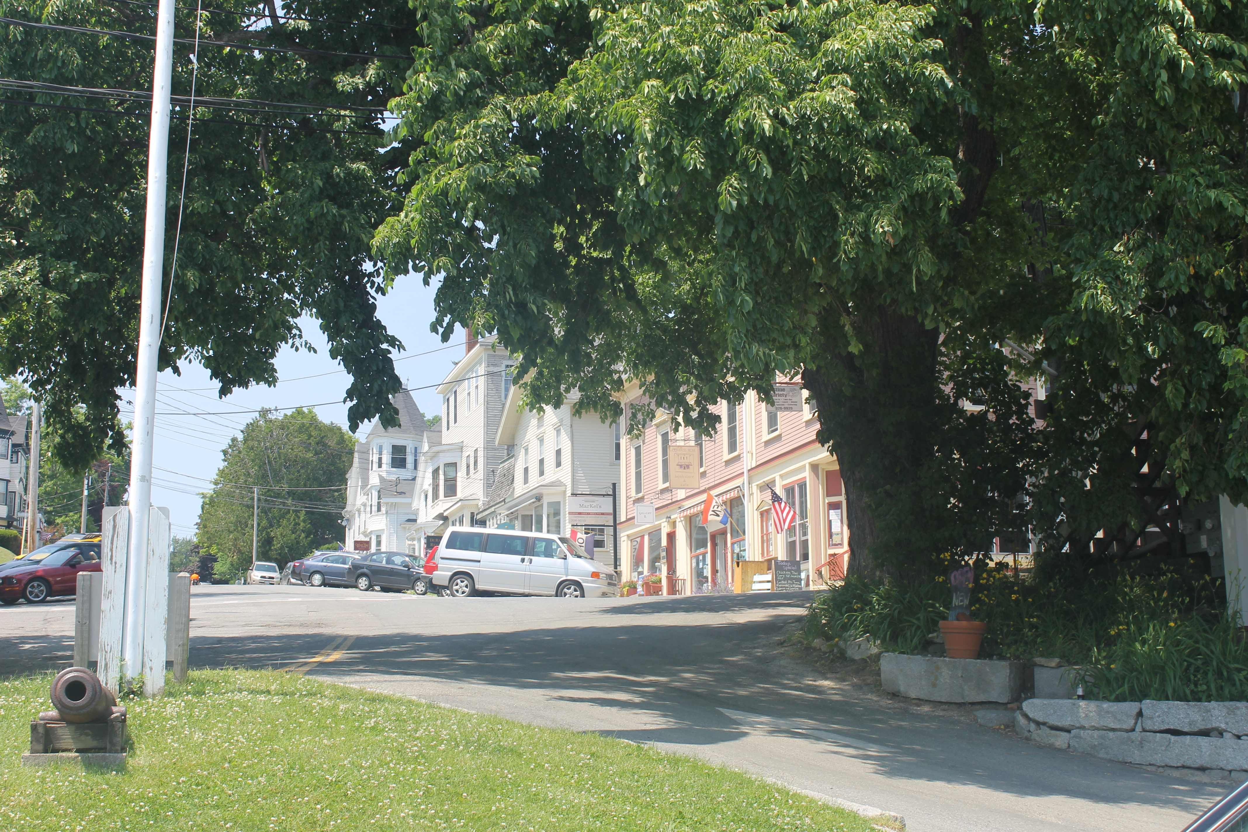 I took photo of Castine business district from the waterfront with Canon camera.